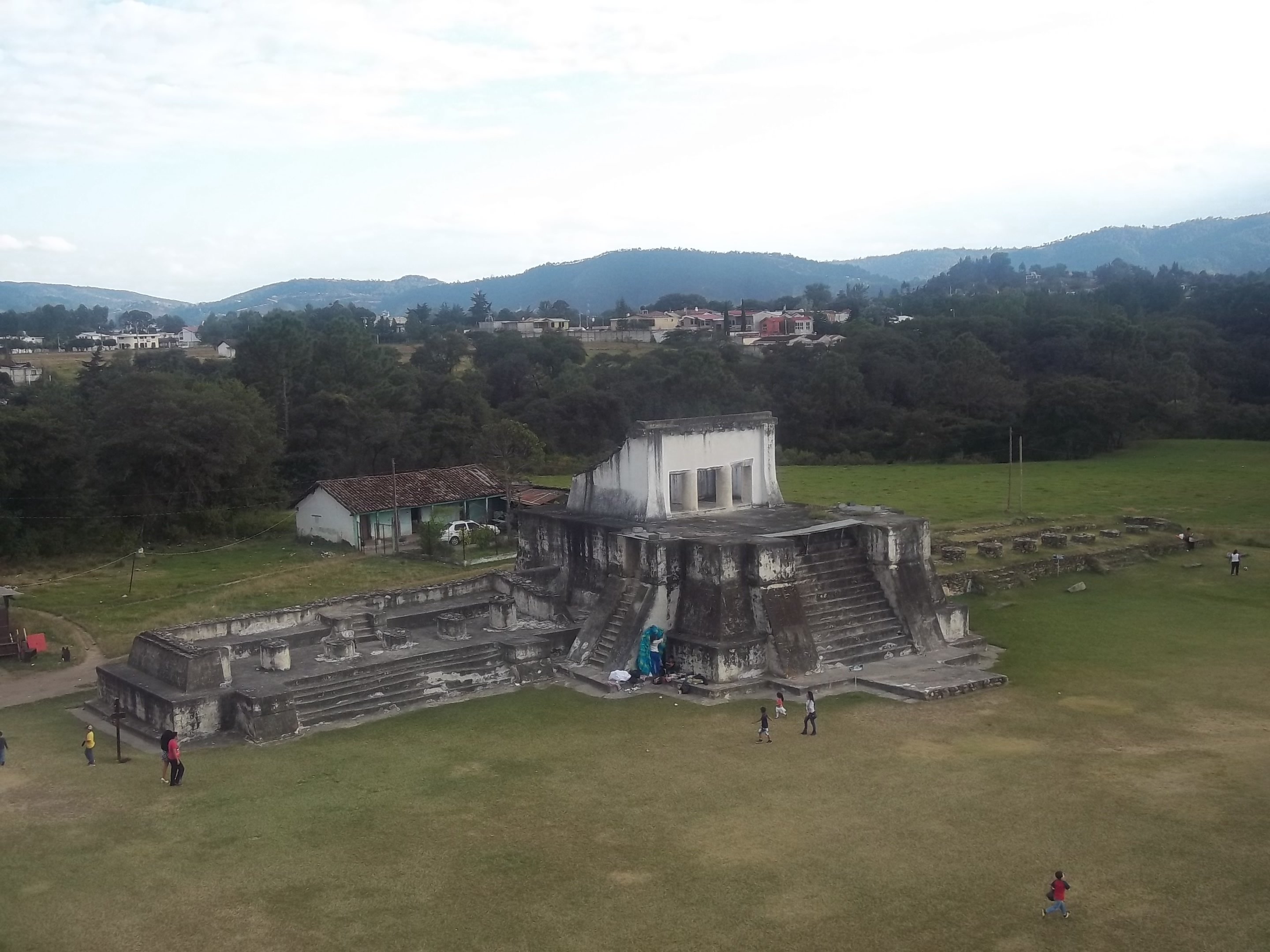 Structure 4 at Zaculeu, Huehuetenango, Guatemala. This unusual palace-temple combination may have been a temple to the K'iche' Moon goddess Awilix.